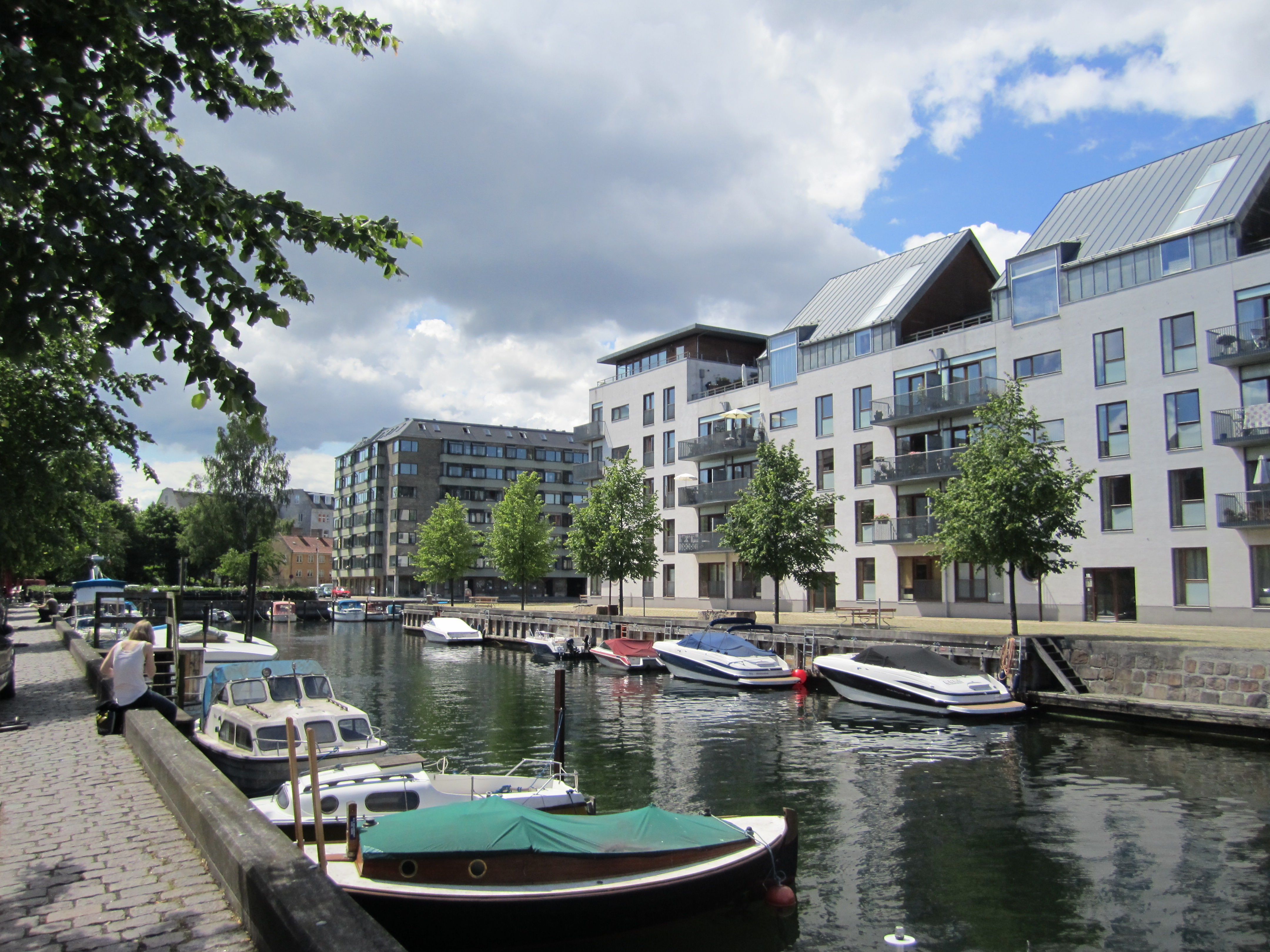 The apartment building Enhjørningens Gård at Christianshavns Kanal in the Christianshavn district of Copenhagen, Denmark. Architect: Arkitema